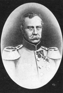 Prince Maximilian von Baden